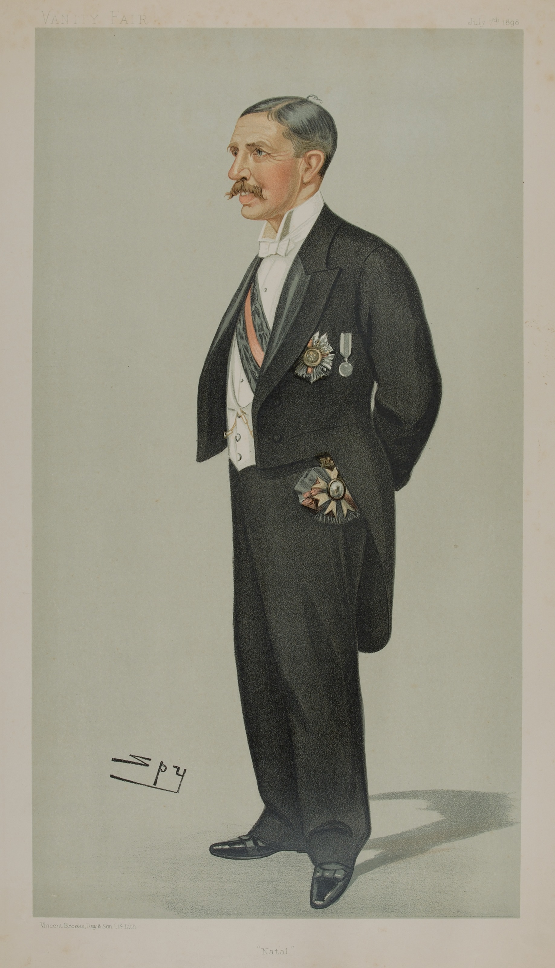 Men of the Day No. 717: Caricature of Sir Walter Hely-Hutchinson, Governor of Natal. Caption read "Natal".